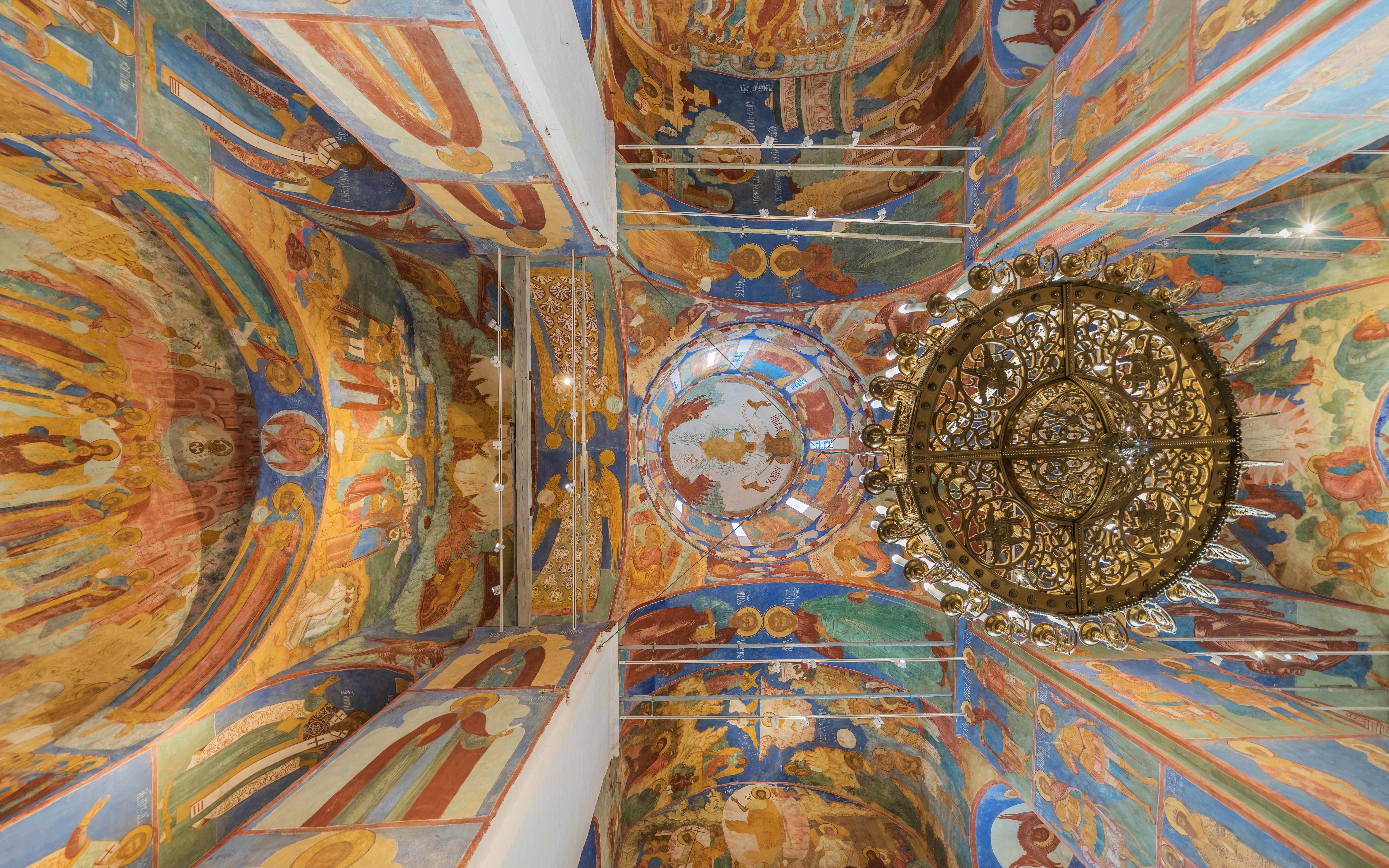 Transfiguration Cathedral in Spaso-Evfimiev Monastery in Suzdal, Russia